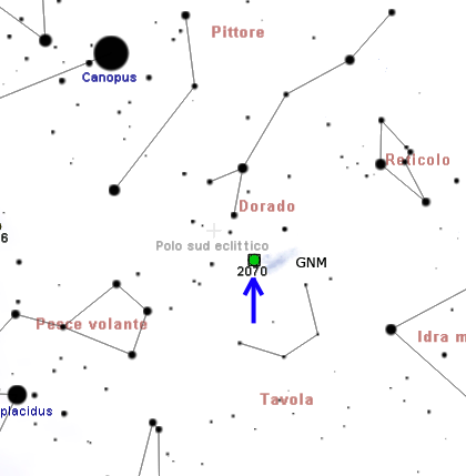 Tarantula Nebula